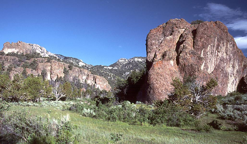 Rock formations in the Quinn Canyon Wilderness Area, looking northwest in Little Cherry Creek Valley.